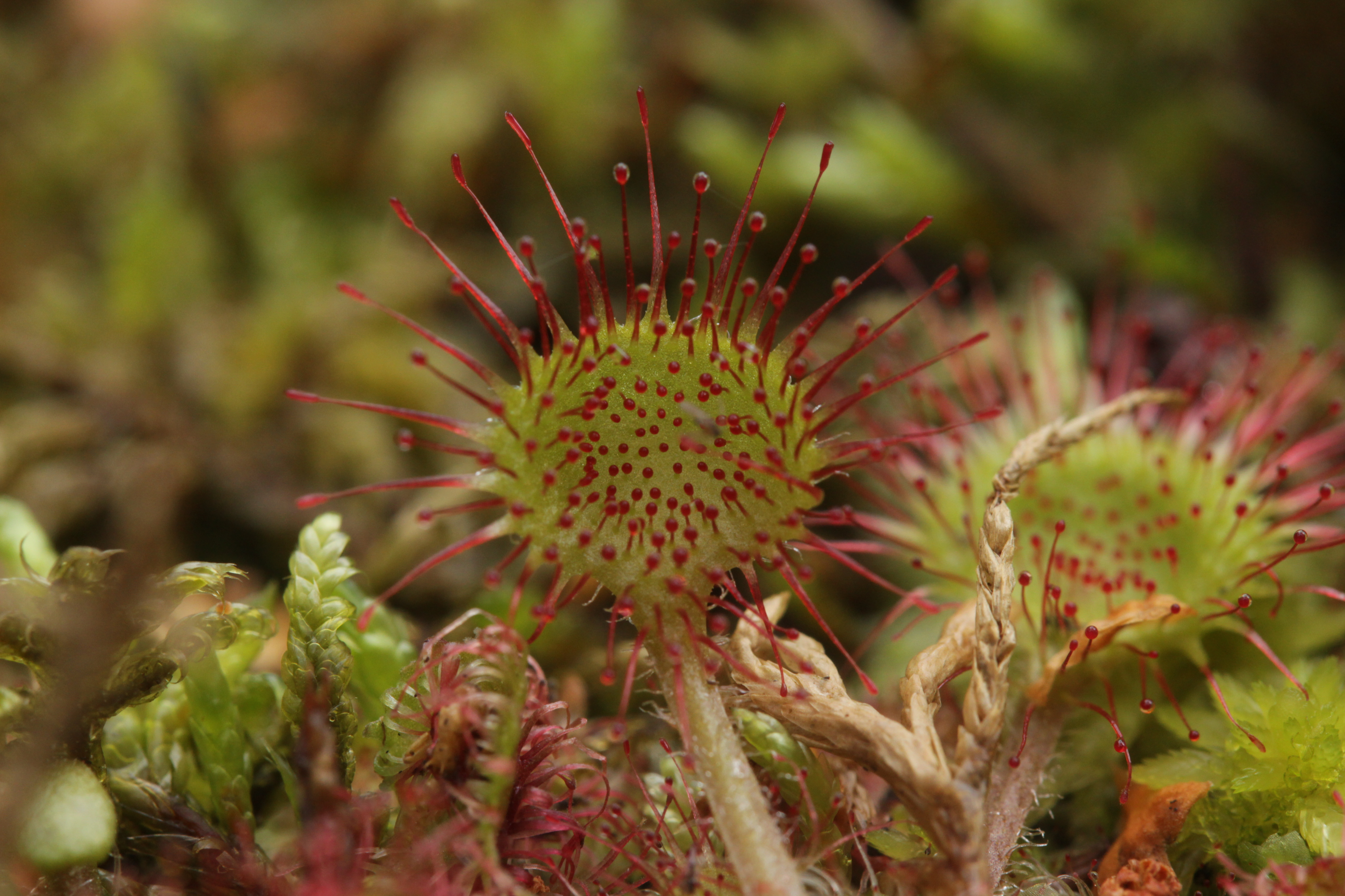 Round-leaved Sundew - Drosera rotundifolia